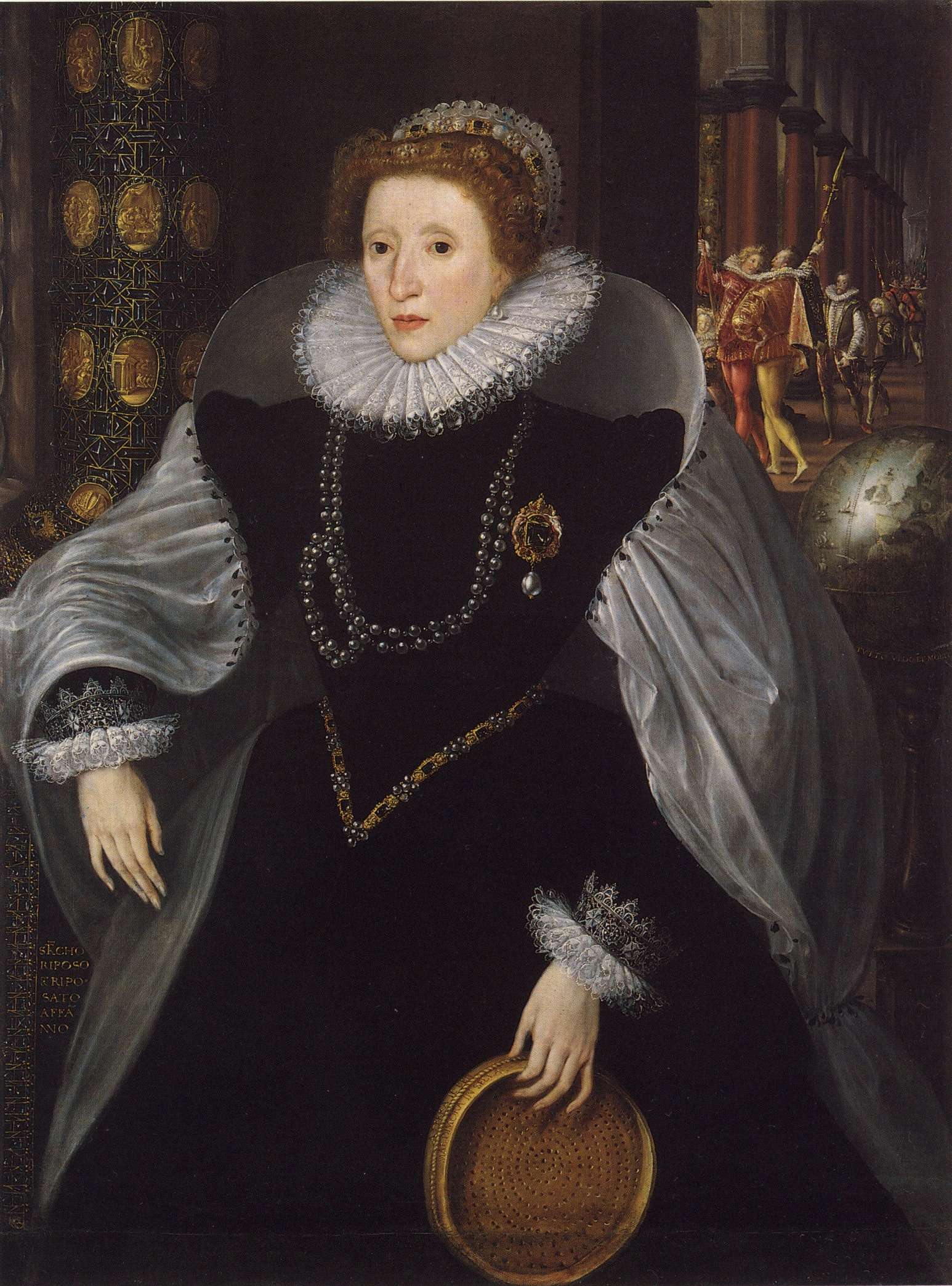 Elizabeth I of England, The Sieve Portrait. Elizabeth is portrayed as Tuccia, a Vestal Virgin who proved her chastity by carrying a sieve full of water from the Tiber to the Temple of Vesta. She is surround by symbols of imperial majesty including a column with an imperial crown at its base and a globe. The portrait is signed on the base of the globe 1583. Q. MASSYS ANT (for "of Antwerp").